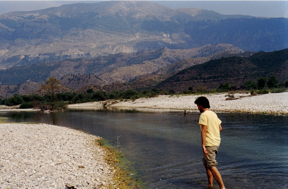 The Drino river, Albania